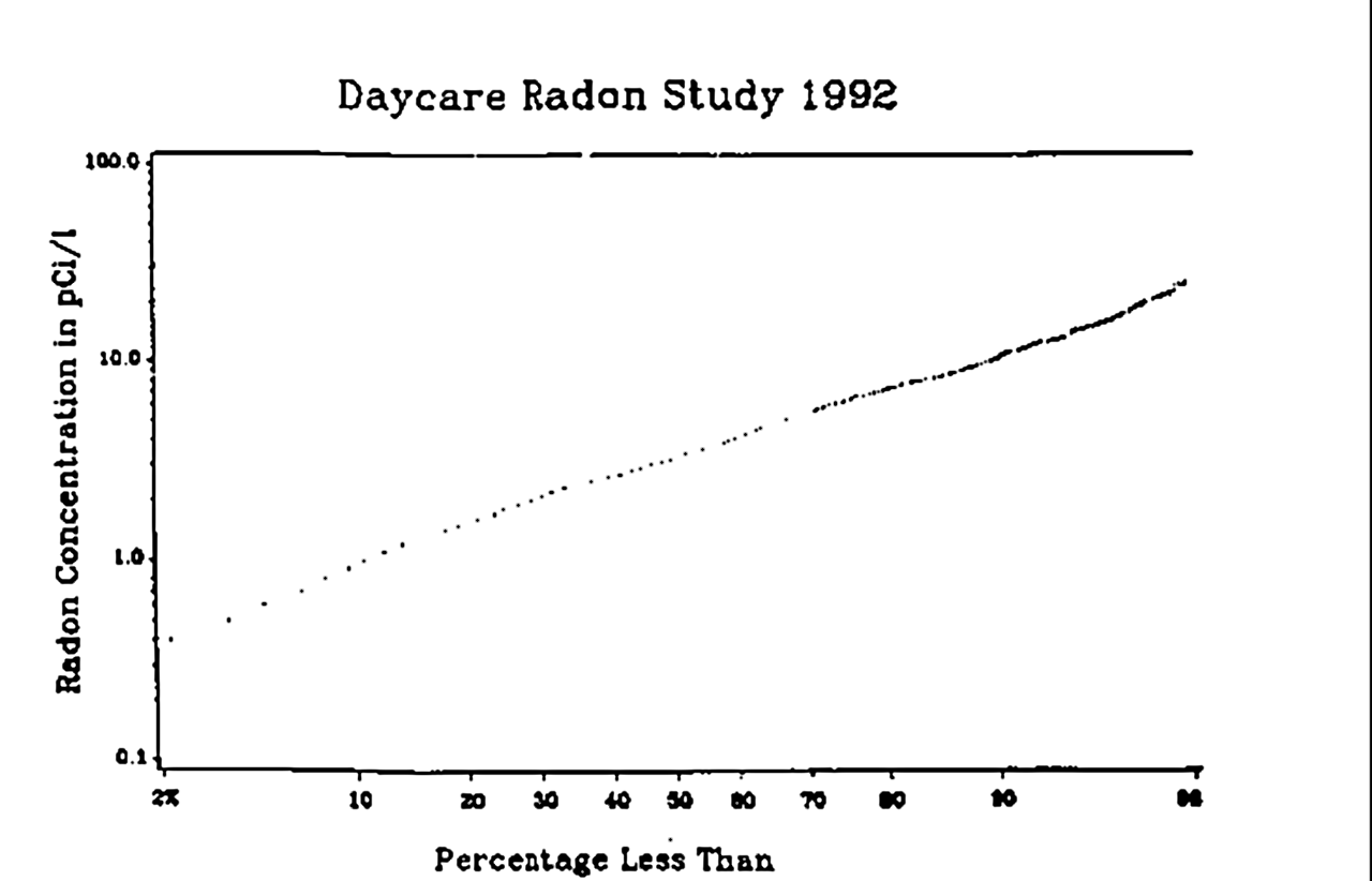 Day Care Radon concentration survey in North Dakota 1991-1992, showing a Lognormal distribution.